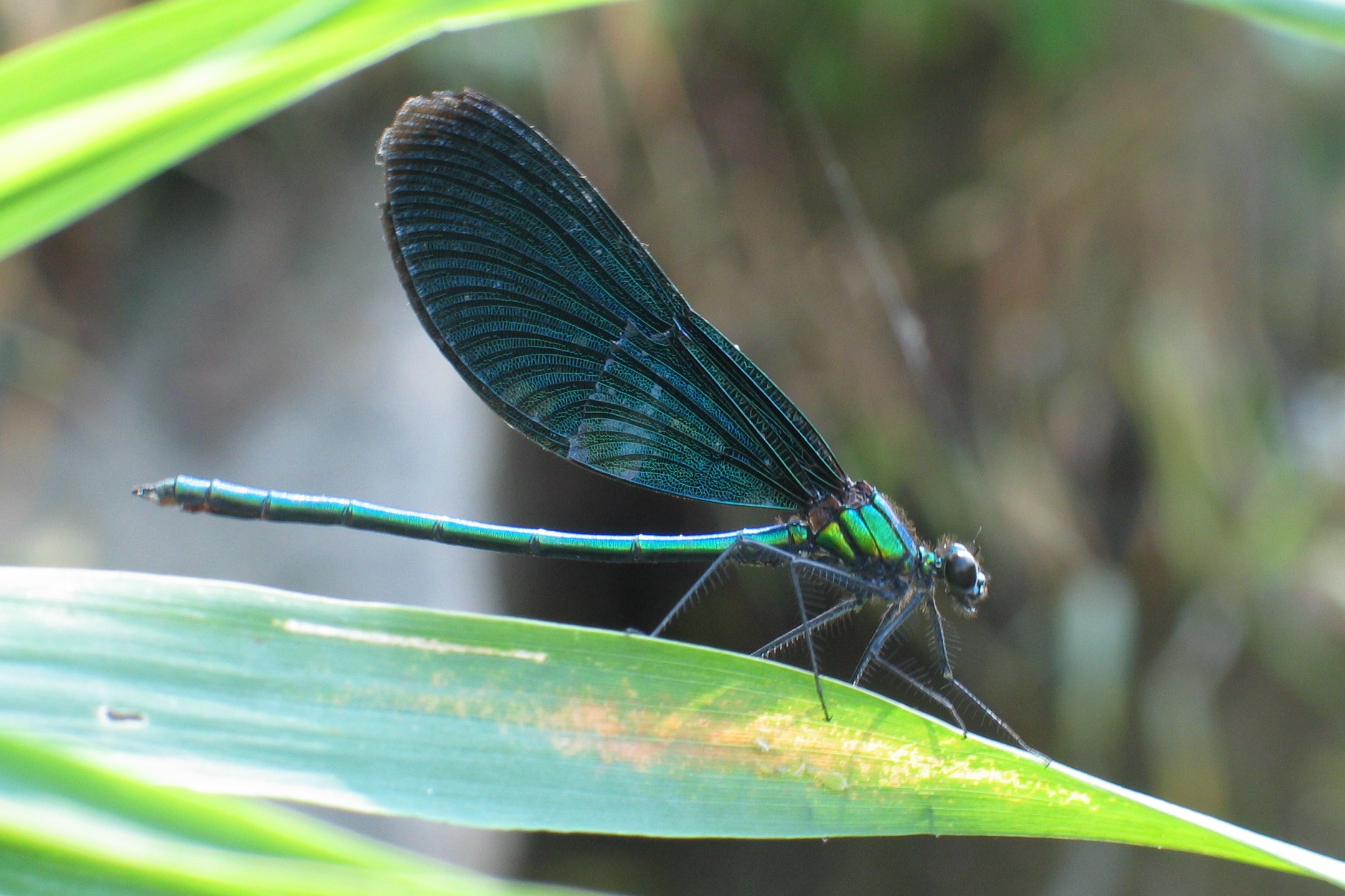 Beautiful Demoiselle, male